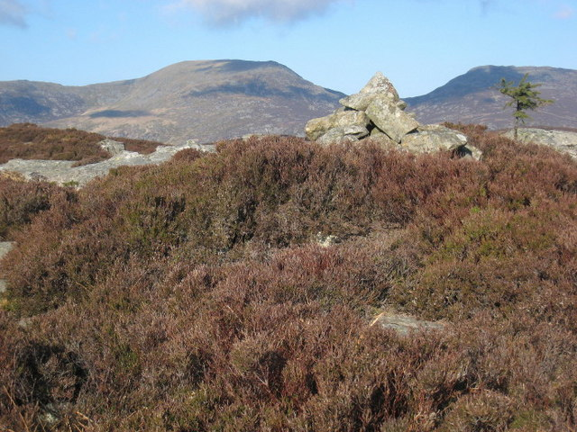 Craig y Ganllwyd. Copa lle ceir golygfa wych tua'r Rhinogydd. Ewch i'r gorllewin os 'da chi'n dilyn fy nhaith. A good vantage point for the Rhinogydd. Go west if you are following my walk.